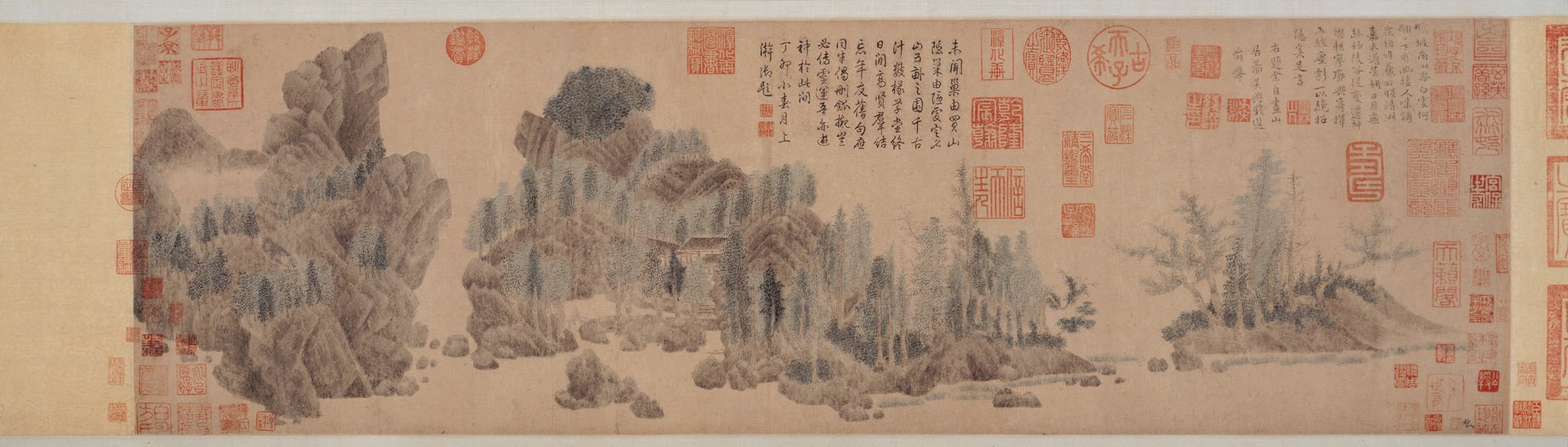 Qian Xuan. Dwelling in the Floating Jade Mountains. (29,6x98,7cm) Shanghai Museum